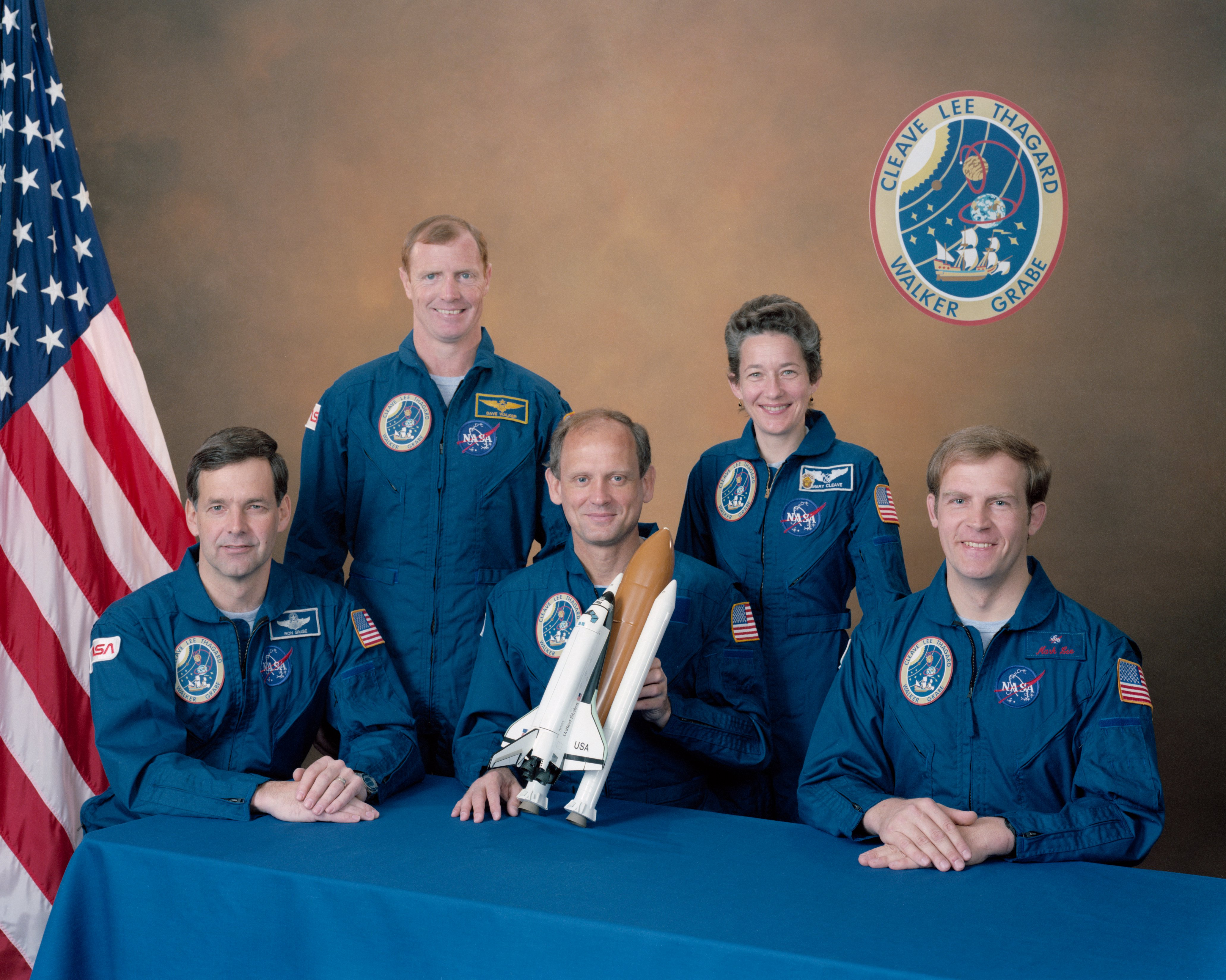 Five astronauts composed the STS-30 crew. Pictured (left to right) are Ronald J. Grabe, pilot; David M. Walker, commander; and mission specialists Norman E. Thagard, Mary L. Cleave, and Mark C. Lee. The STS-30 mission launched aboard the Space Shuttle Atlantis on May 4, 1989 at 2:46:59pm (EDT). The primary payload was the Magellan/Venus Radar mapper spacecraft and attached Inertial Upper Stage (IUS).